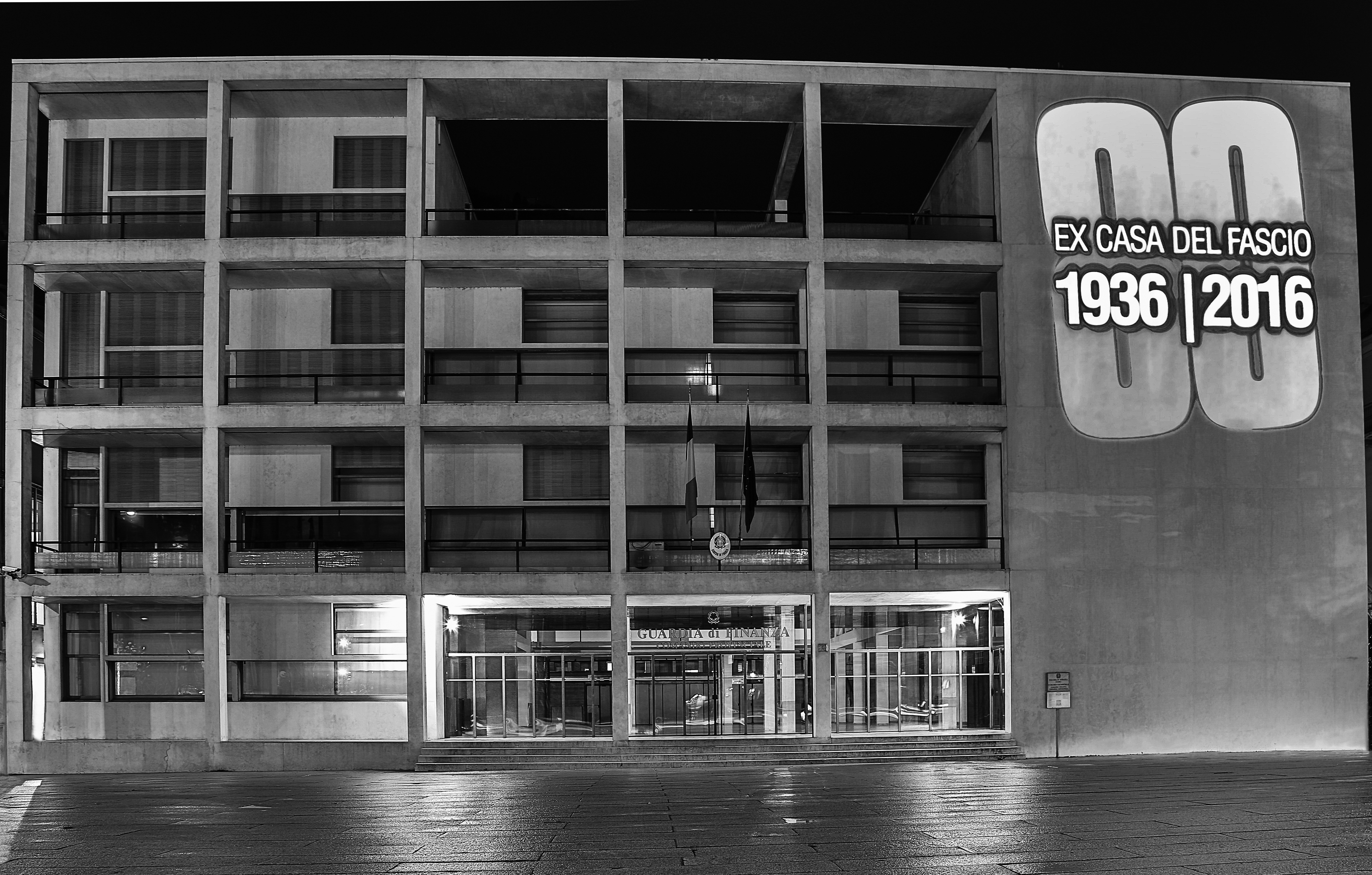 ex casa del fascio This is a photo of a monument which is part of cultural heritage of Italy.